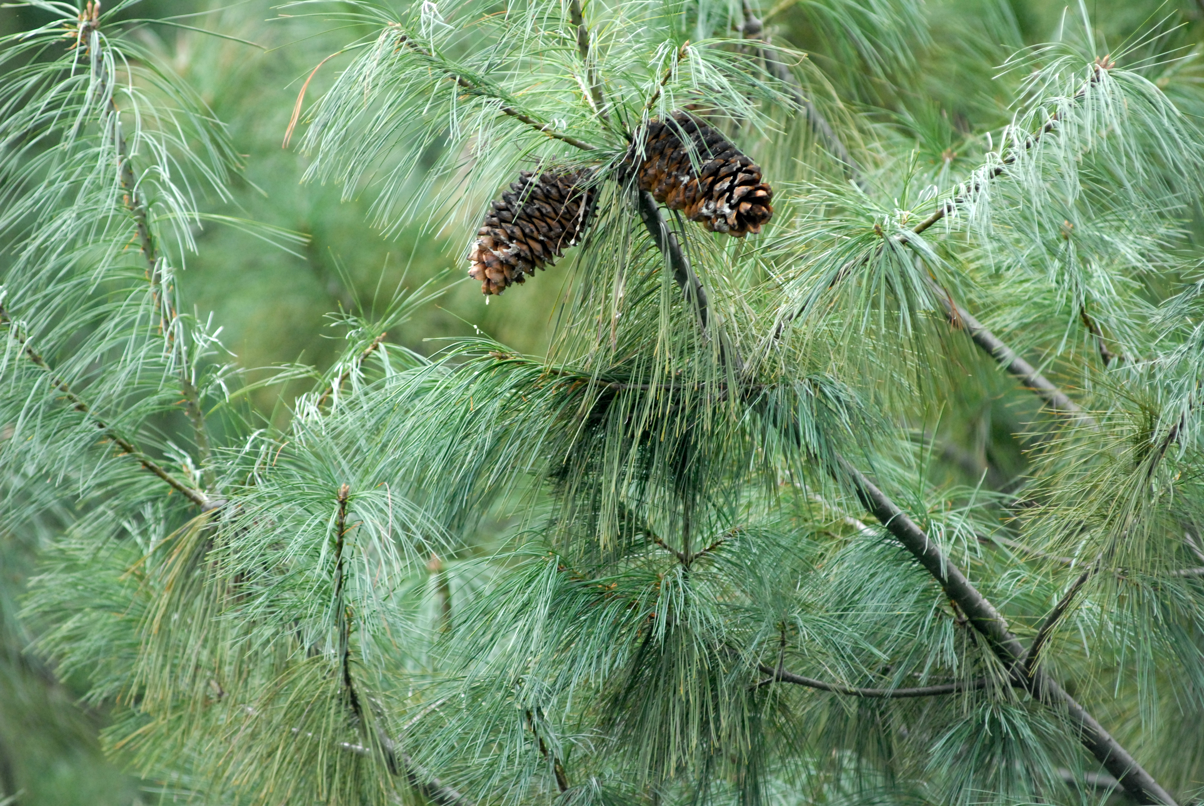 Pinus armandii foliage and cones, Cangshan, Dali, Yunnan.